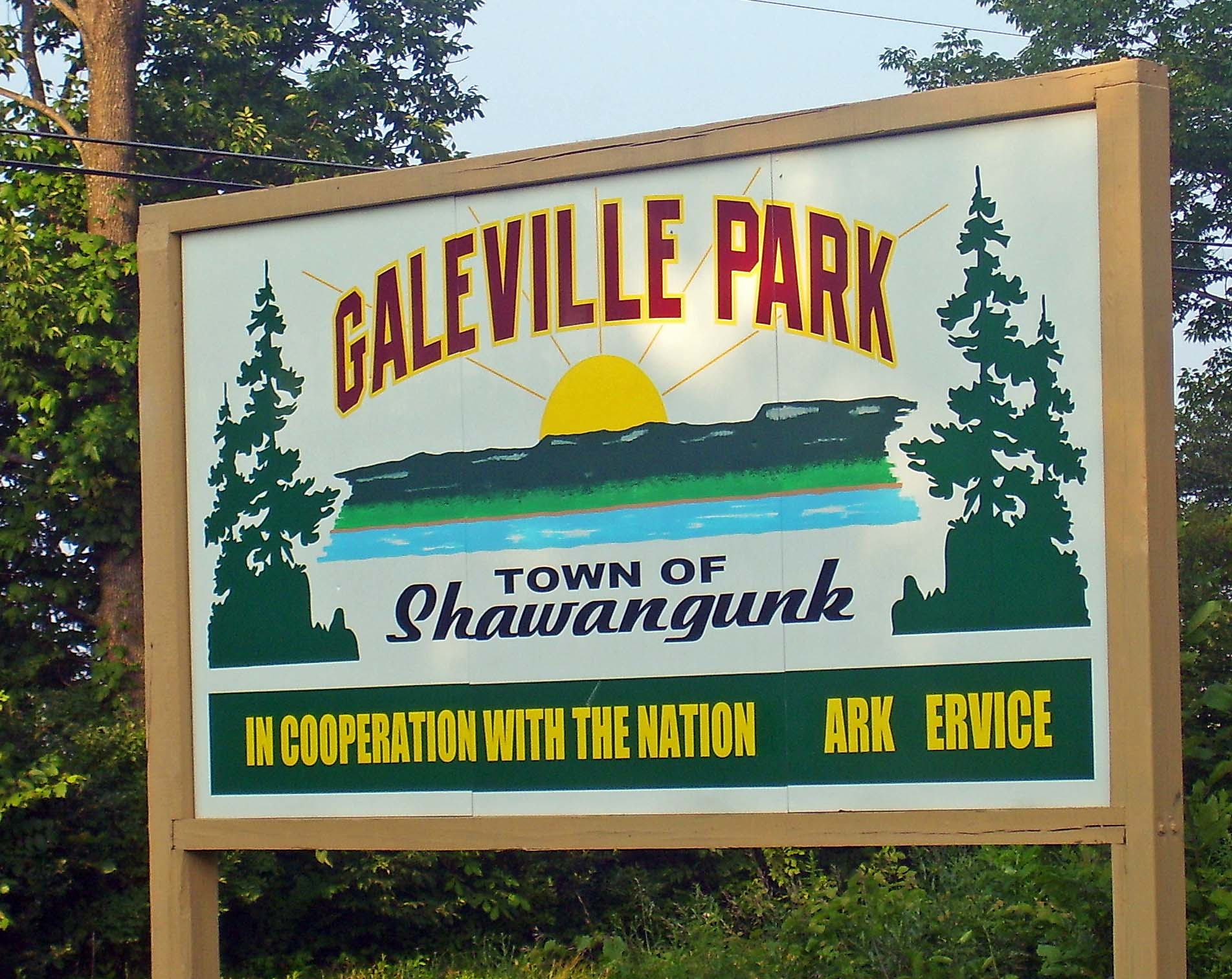 Sign ouside Galeville Park in the Town of Shawangunk, NY, USA